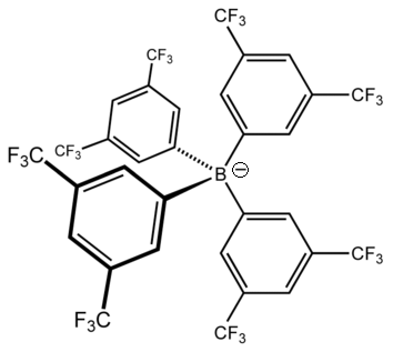 The non-coordinating anion "BARF" with composition [3,5-(CF3)2C6H3]4B−, commonly abbreviated as [BArF4]− and named tetrakis(3,5-bis(trifluoromethyl)phenyl)borate ion